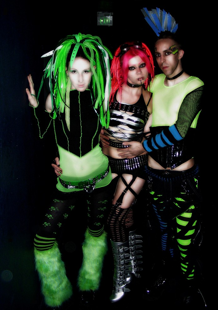 Cyber Designs by Atomik Reaktion, Death Guild, San Francisco